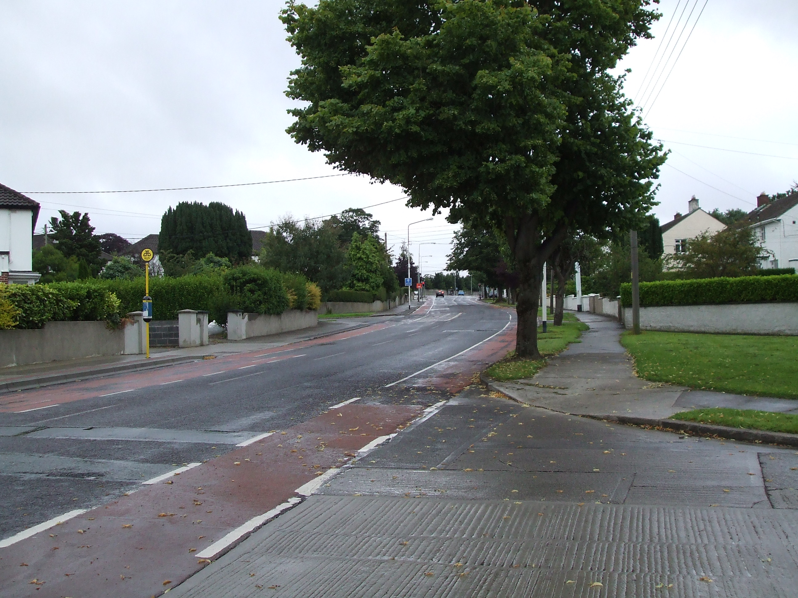 View facing south along the R825 road in Goatstown in Dublin in Ireland, at its intersection with Farmhill Park (right).